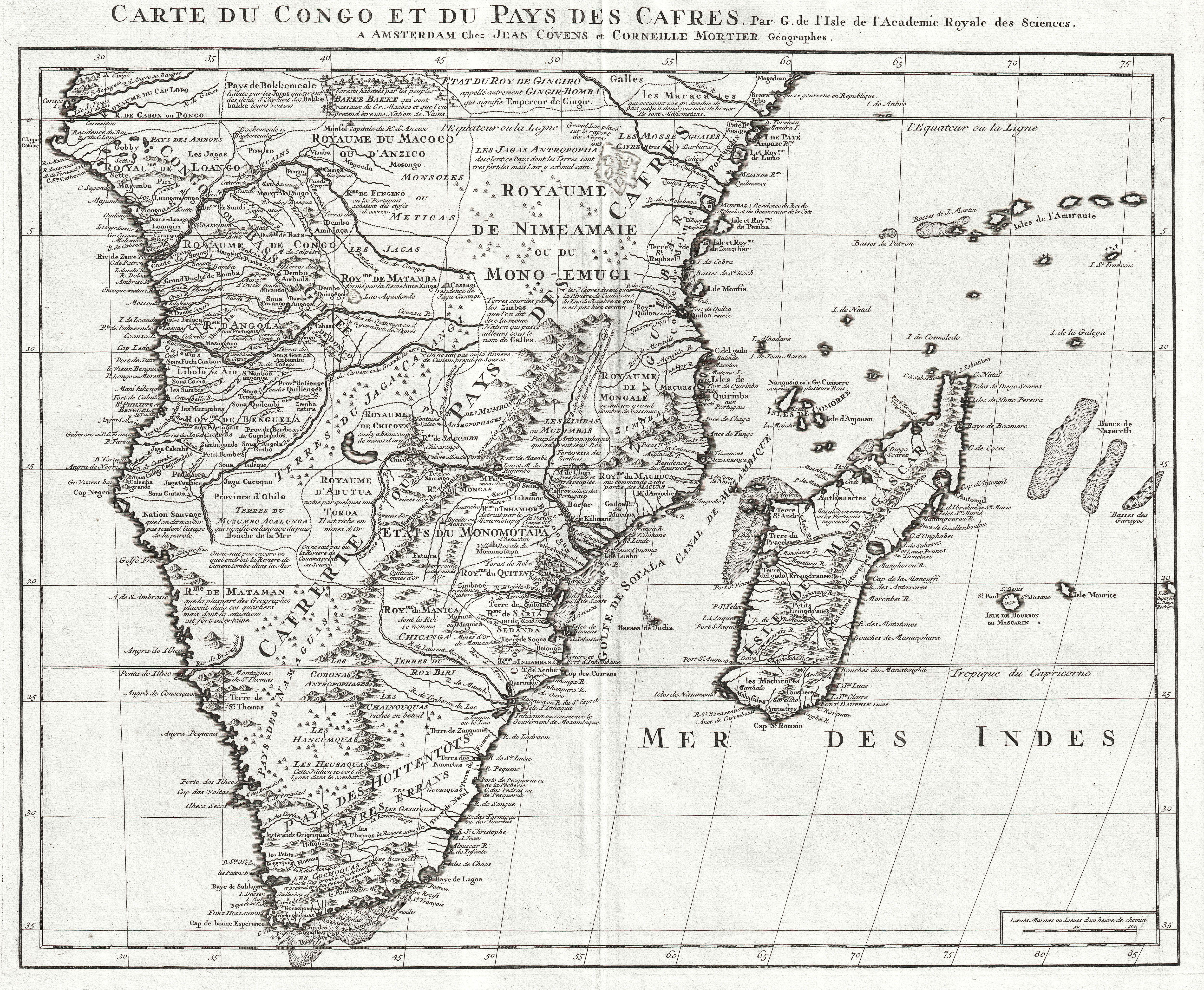 An extraordinary example of Covens and Mortier’s c. 1730 issue of De L’Isle’s important c. 1707 map of Africa south of the Equator. Depicts the southern Africa in stunning detail with numerous notations an comments regarding the people, geography, and wildlife of the region. De L’Isle was very a cautious and scientific cartographer, basing his maps on the first hand reports from sailors, merchants and missionaries that, at the time, were flowing into Paris at an unprecedented rate. This map offers significant detail throughout the interior naming numerous tribal areas and kingdoms including the Jaga, the Kongo, the Angola, the Kingdom of Numeamaie or Mono-Emugi, Monomotapa, Gingiro, and others. Shows the Portuguese trading colonies of Sena and Tete (Santiago) on the Zambezi River. Also near the Zambezi, La Victoire Couvent de Dominicains is worth a mention. Also notes the predominantly Arab island kingdoms of Pemba and Zanzibar. Identifies the Dutch colonies near the Cape of Good Hope, including “Fort Hollandois” (Cape Town). Near the Equator, De L’Isle identifies an enormous lake almost exactly in the modern location and form of Lake Victoria. He notes that this is a “ Grand Lac place sur le raport des Negres .” What is remarkable about this is not the appearance of a lake in this region, one of the two Ptolemaic sources of the Nile appeared on maps of this area for hundreds of years, but rather that it seems to be based on actual evidence and it is not connected to any of the great African river systems. It seems highly likely that this is one of the first clear references to Lake Victoria to appear on a map.